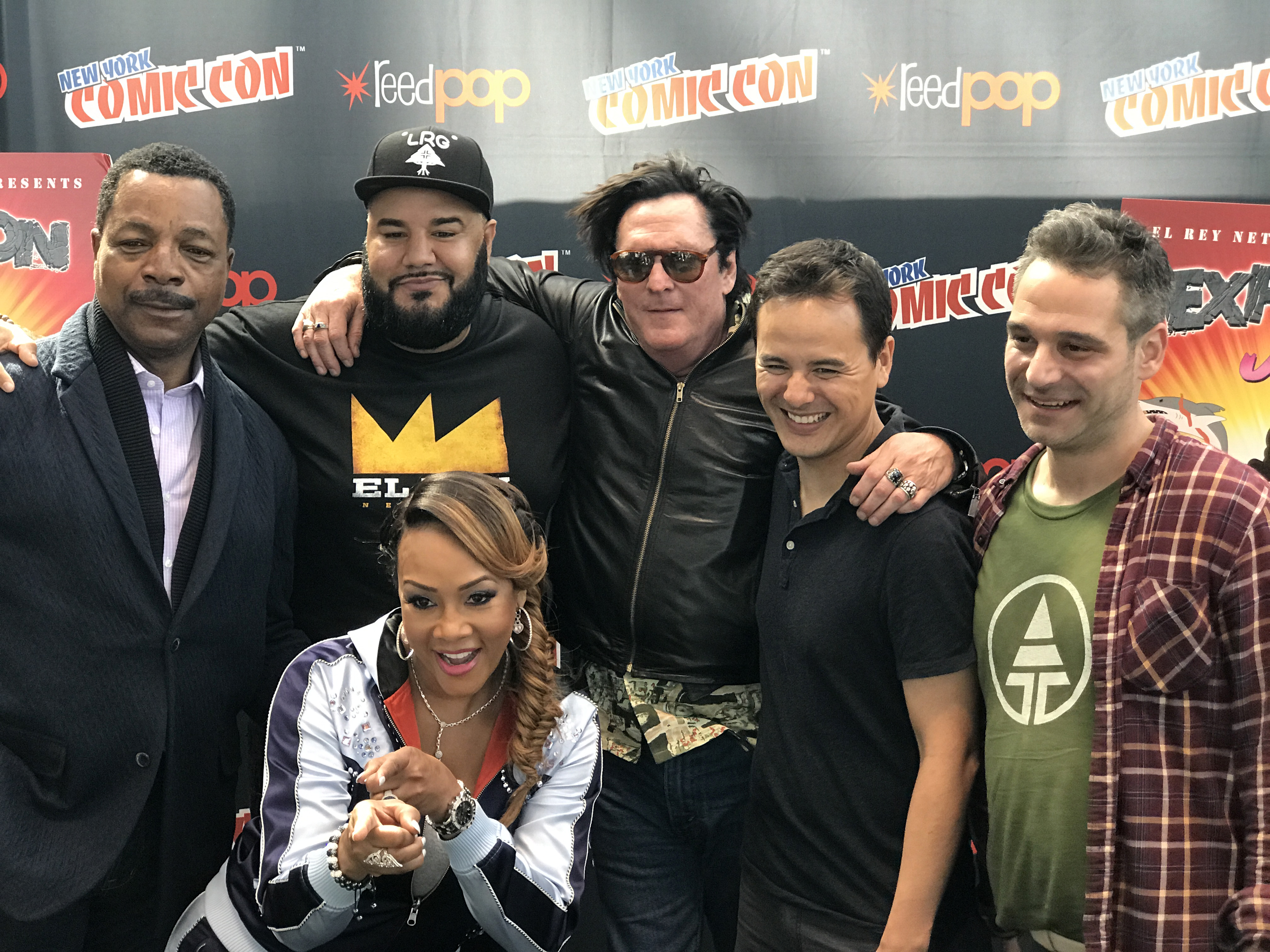 Cast and crew of the animated TV series, Explosion Jones, posing with El Rey Network correspondent Chuey Martinez while promoting that show in one of the Fourth Floor press rooms of the Jacob K. Javits Convention Center in Manhattan, on Thursday, October 5, 2017, Day 1 of the 2017 New York Comic Con. From left to right, back row: Actor Carl Weathers, Chuey Martinez, Actor Michael Madsen, and series co-creators Micheal Williams and Mike Parker. Crouching in the front is actress Vivica A. Fox. This photo was created by Luigi Novi. It is not in the public domain, and use of this file outside of the licensing terms is a copyright violation.